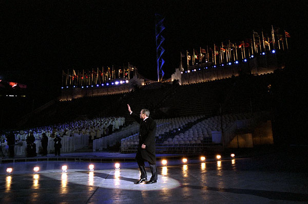 President George W. Bush waves to the crowd as he walks across the ice during the opening ceremonies for the 2002 Winter Olympic Games in Salt Lake City, Utah